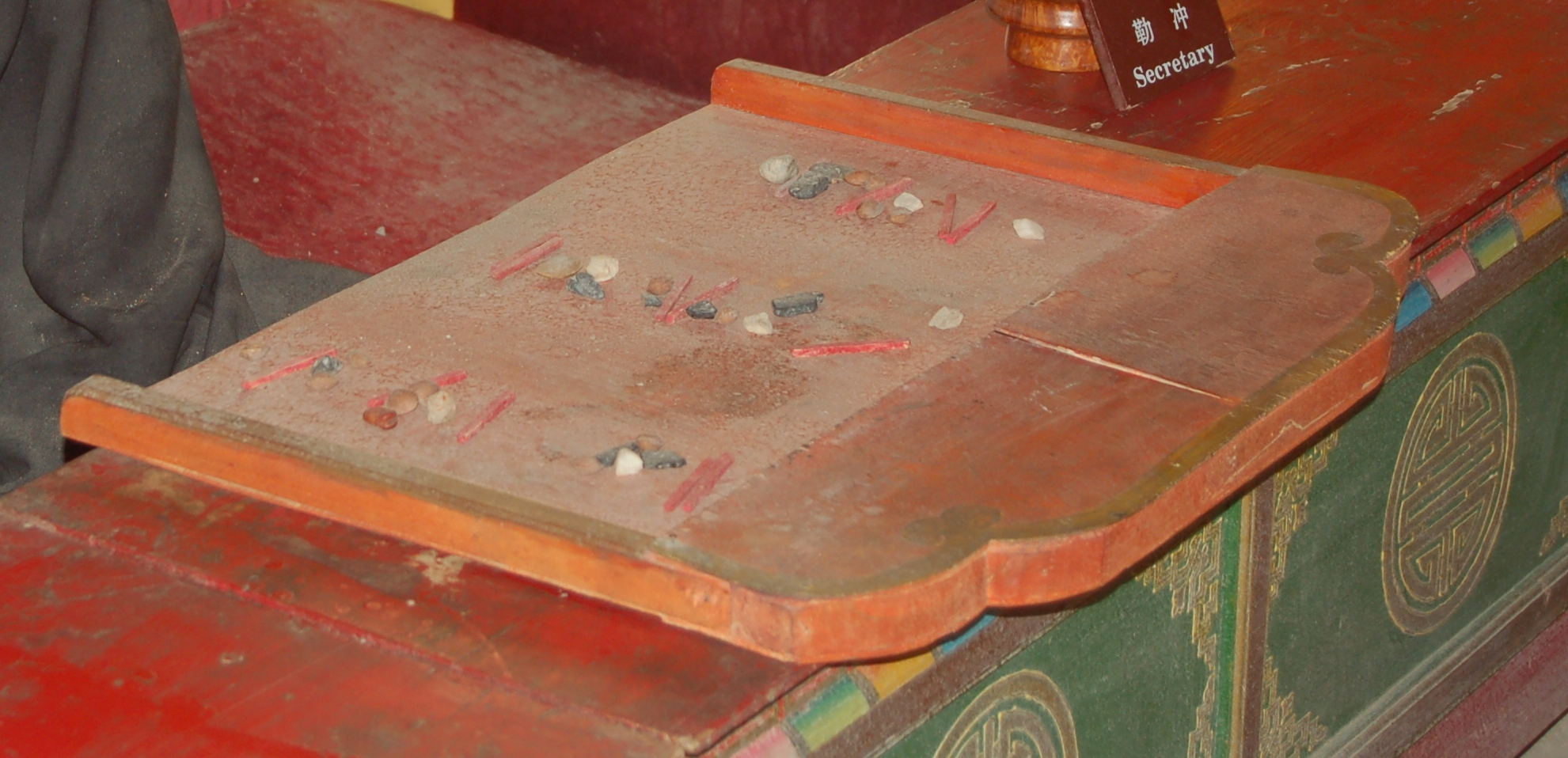 Tibetan calculation table photographed in the museum in Gyantse